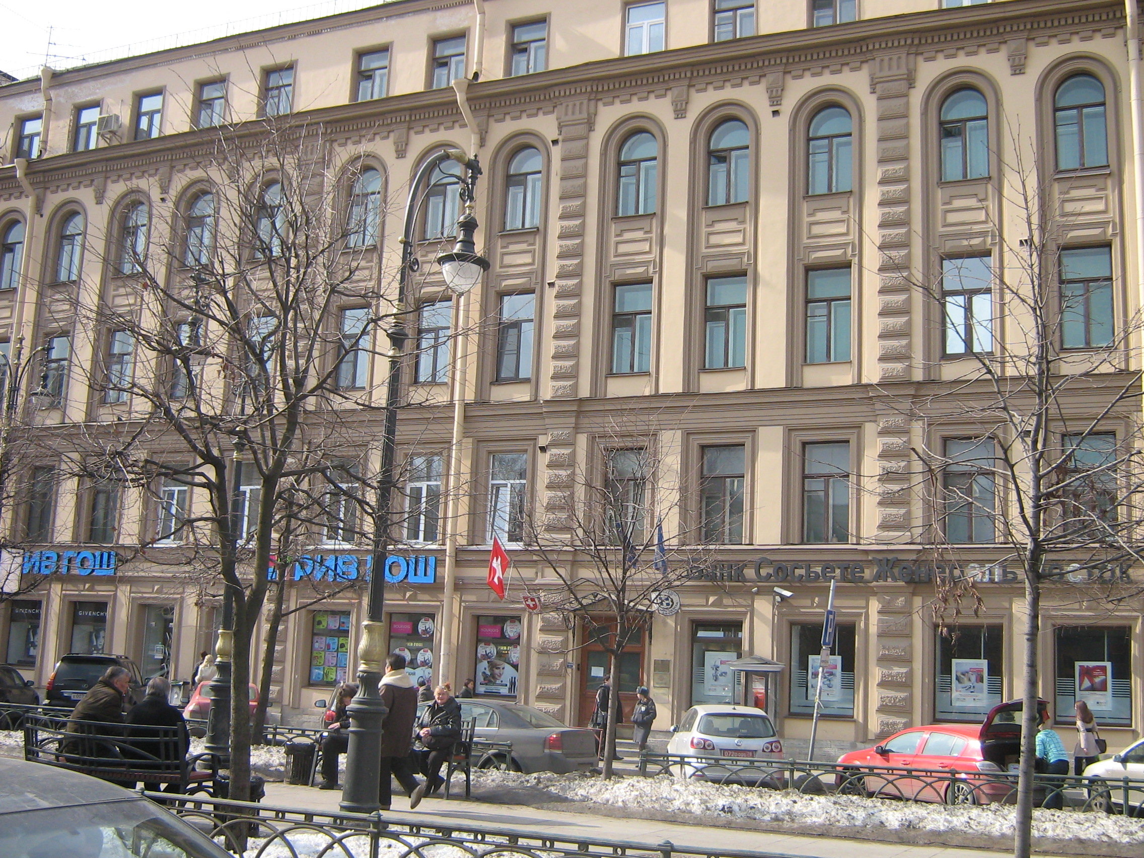 Consulate General of Switzerland and the Consulate-General of Greece in Saint Petersburg (Russia)